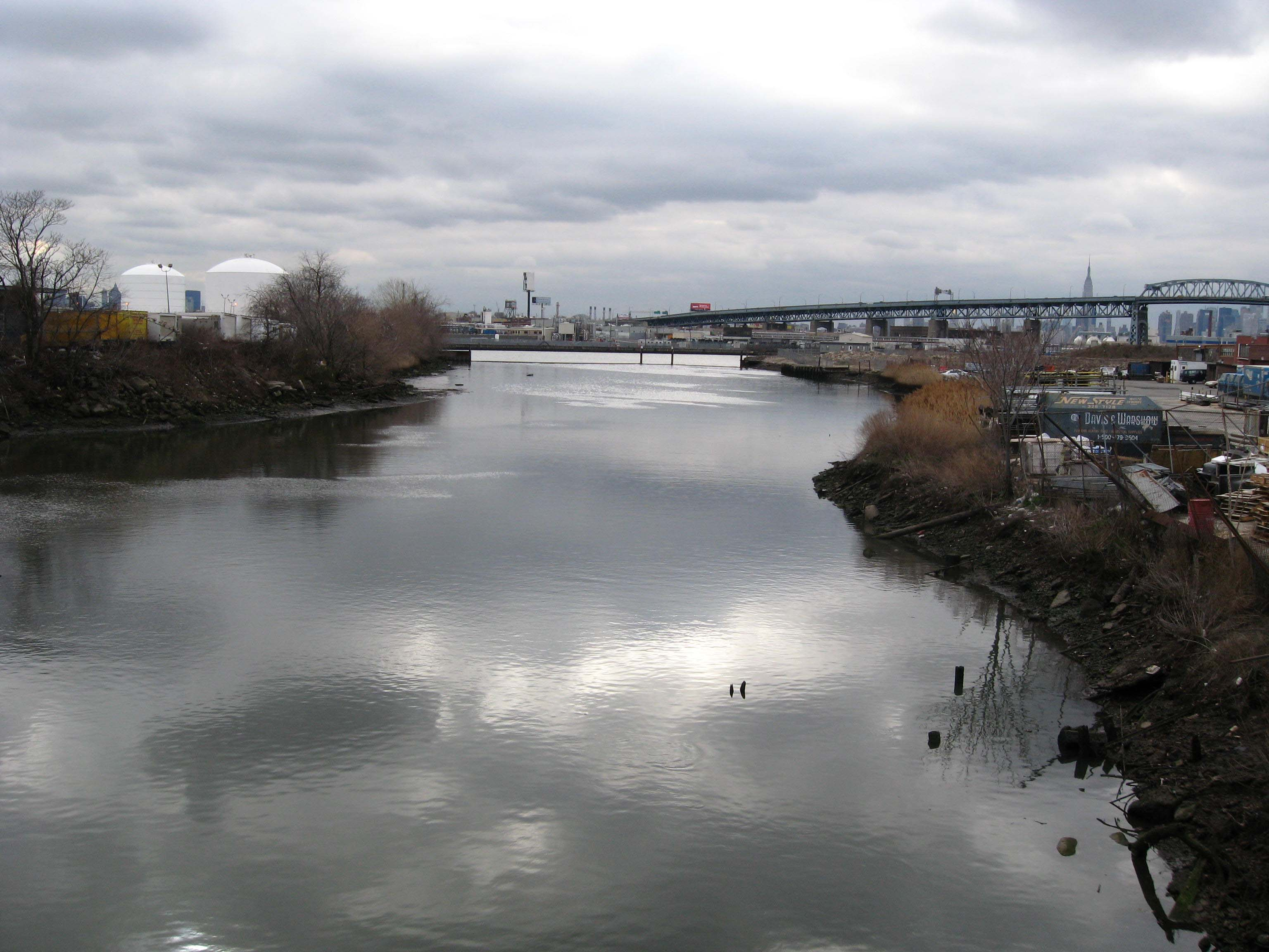 I stood at the head of Maspeth Creek looking west towards Newtown Creek and East Bushwick on a cloudy afternoon of early spring.